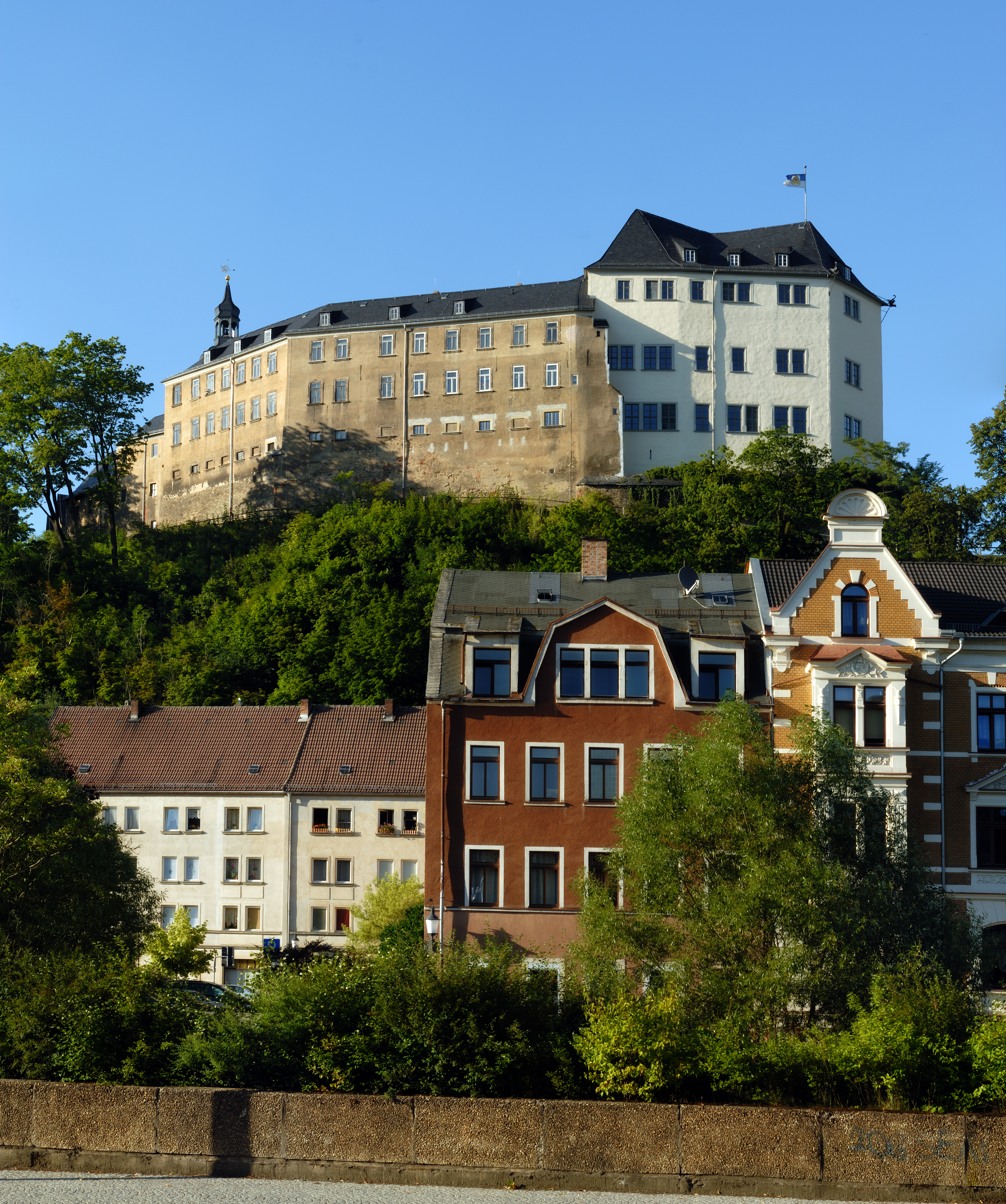 This image shows the upper castle in Greiz, Thuringia, Germany. It is a four segment panoramic image.